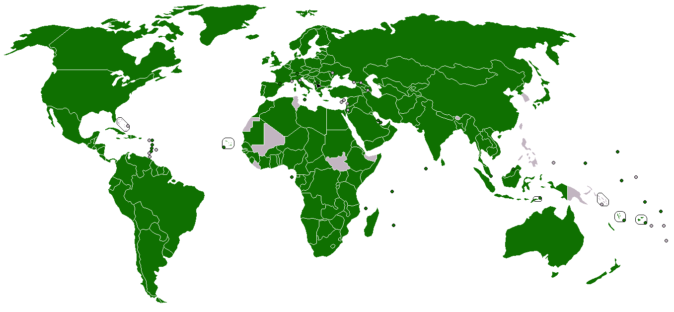 information from [1]